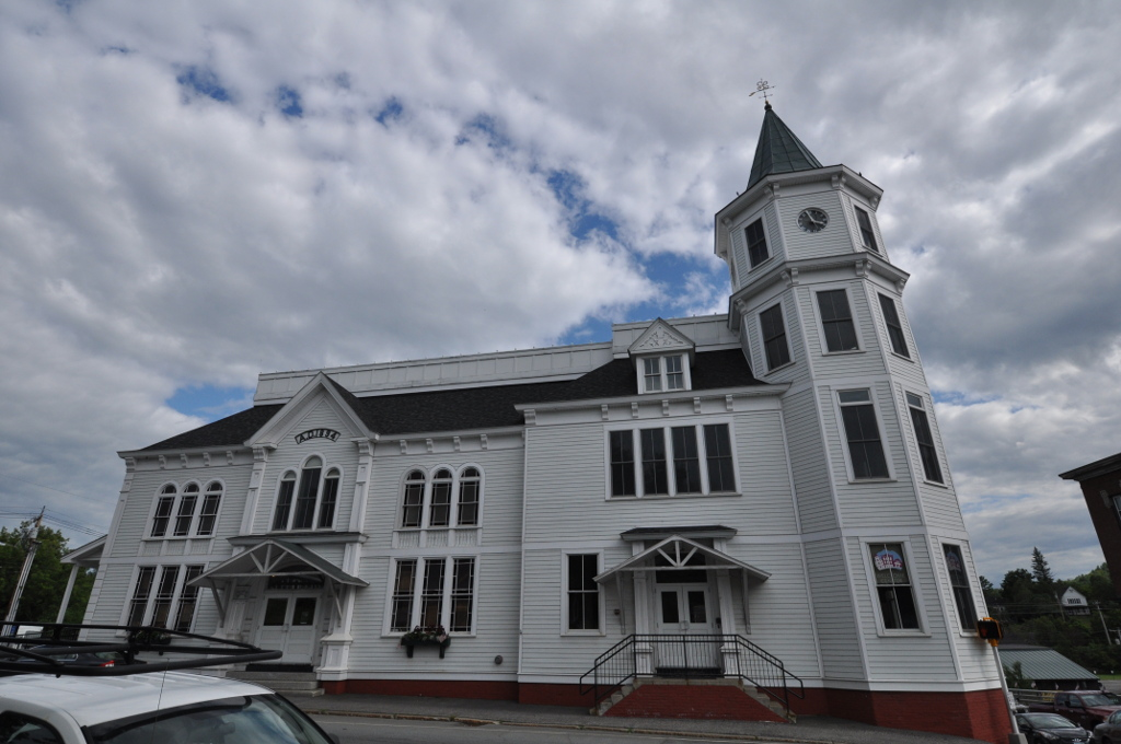 Littleton Town Building, Littleton, New Hampshire.